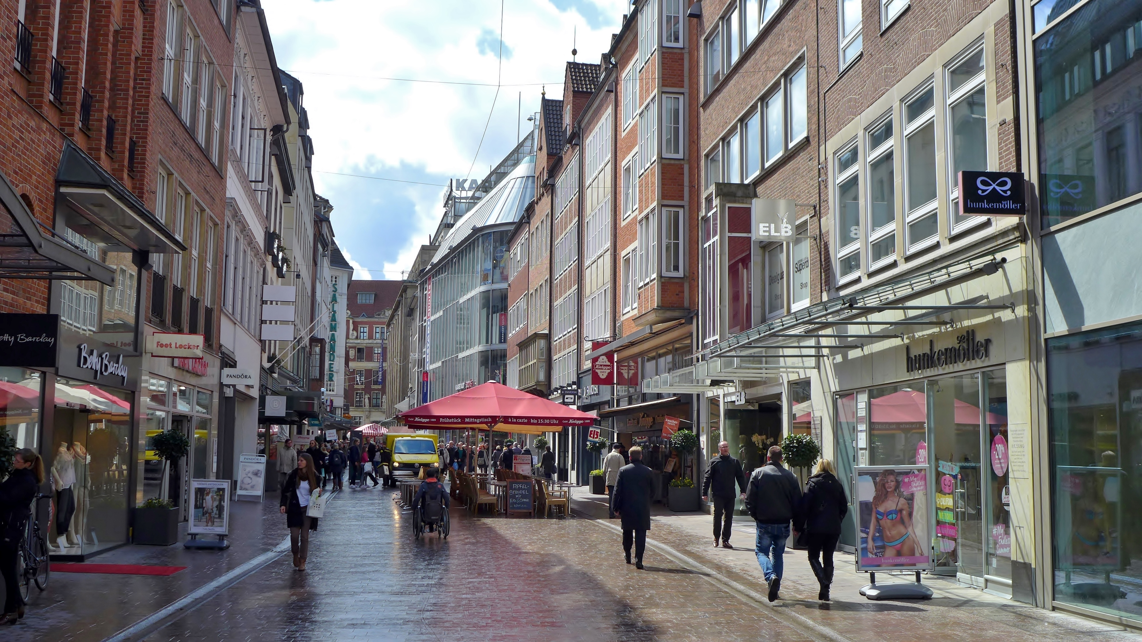 View of Sögestraße, a main shopping street in Bremen, Germany